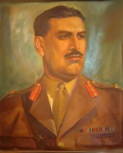 Gen.M. Iftikhar Khan, a Minhas Muslim Rajput.